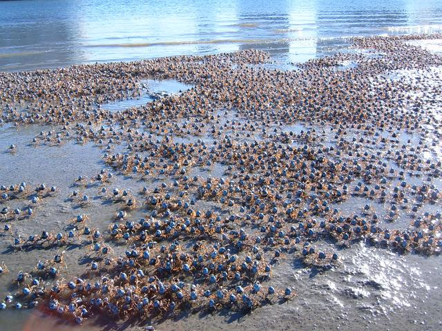 Mictyris longicarpus (Soldier Crab) This picture was taken at Labrador, Queensland, Australia, in July 2006. Low tide beside the mangrove islands near the Gold Coast.